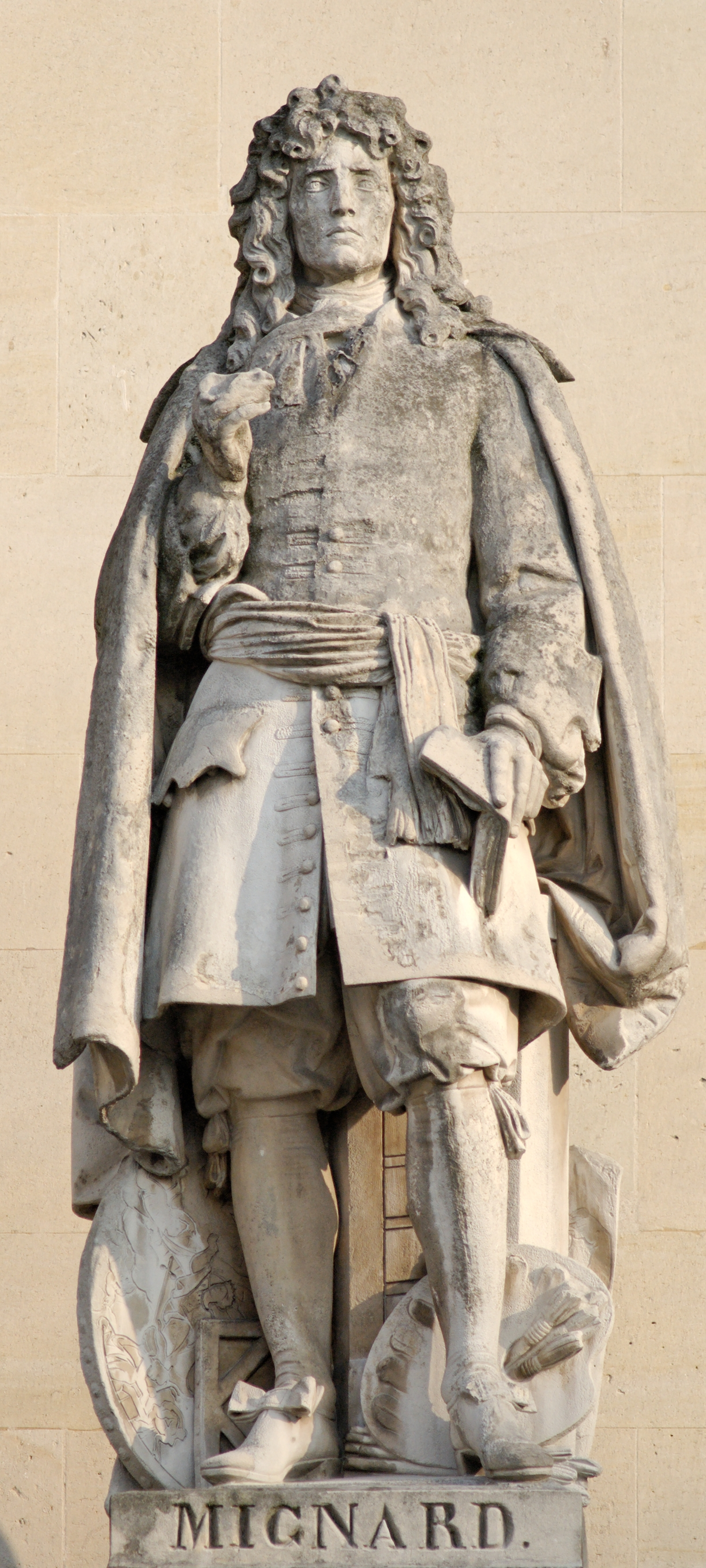 Mignard by Jean Debay, aka Debay the Younger. Stone, ca. 1853. 12th statue from Pavillon Colbert to Pavillon Sully, Cour Napoléon in the Louvre.